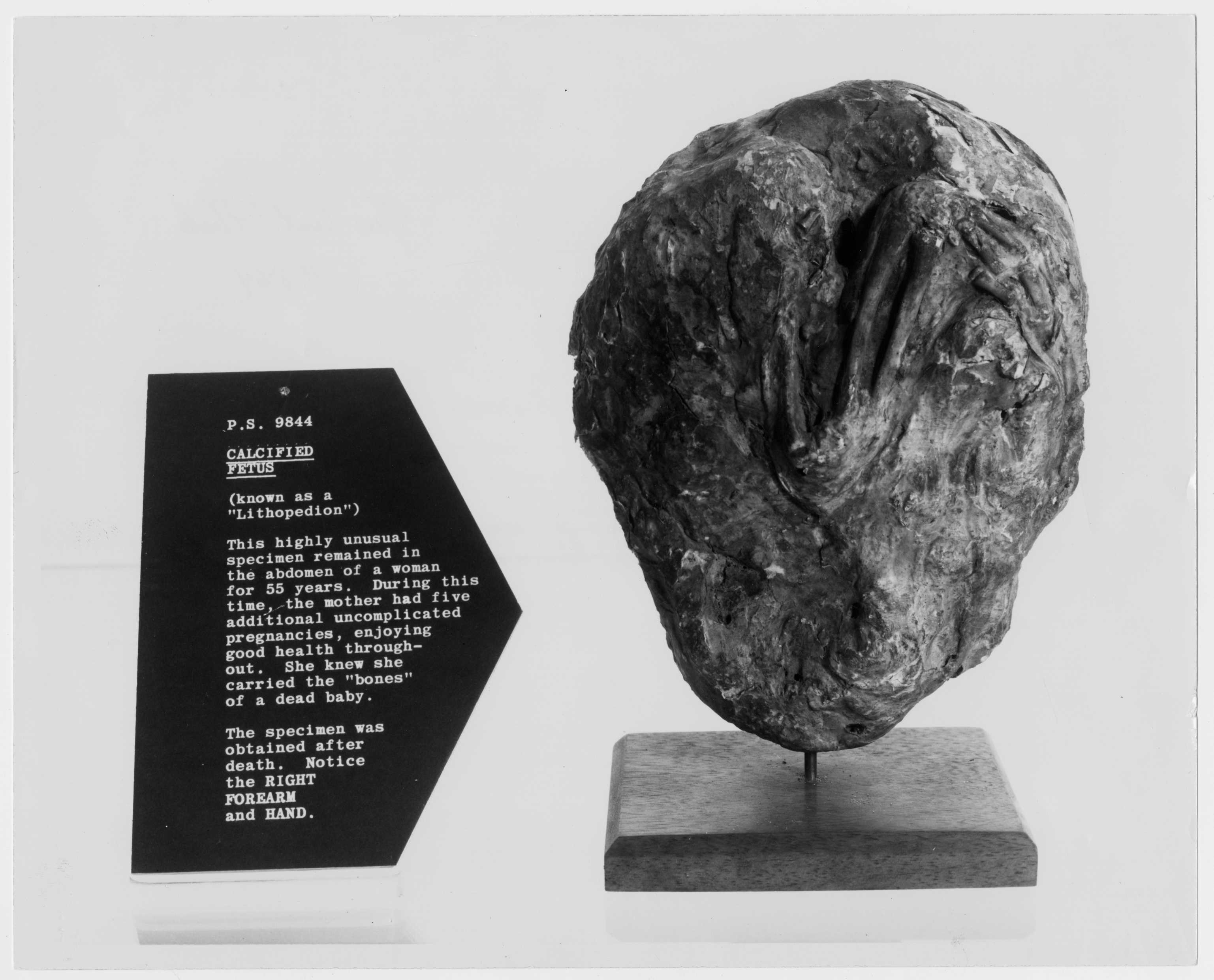 Calcified fetus (known as lithopedion). This highly unusual specimen remained in the abdomen of a woman for 55 years. During this time the mother had five additional uncomplicated pregnancies.